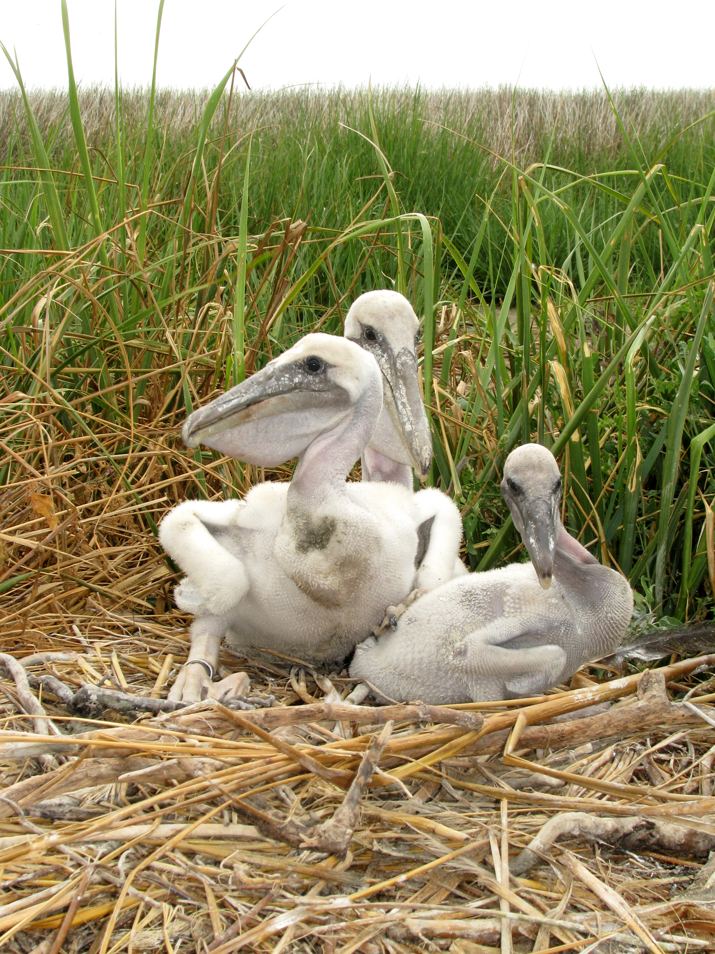 Three Brown Pelican chicks in a nest of the ground in Chesapeake Bay, Maryland, USA.